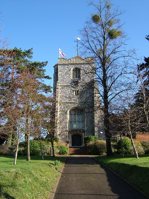 Parish church of St.Mary and St.Nicholas. Looking East